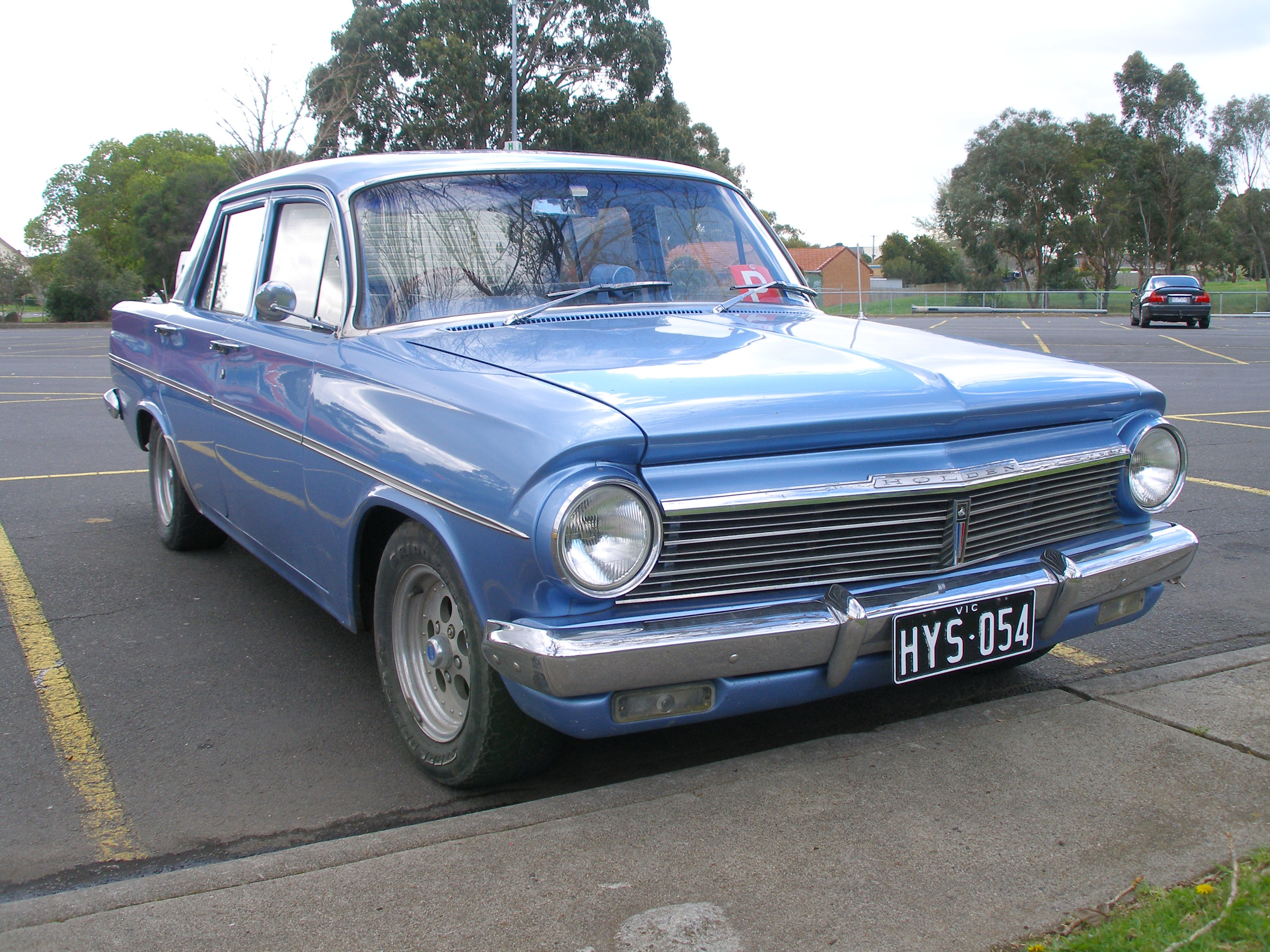 1963–1965 Holden EH Special sedan, photographed in Victoria, Australia.